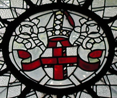 Coat of arms of the bishopric of Cammin